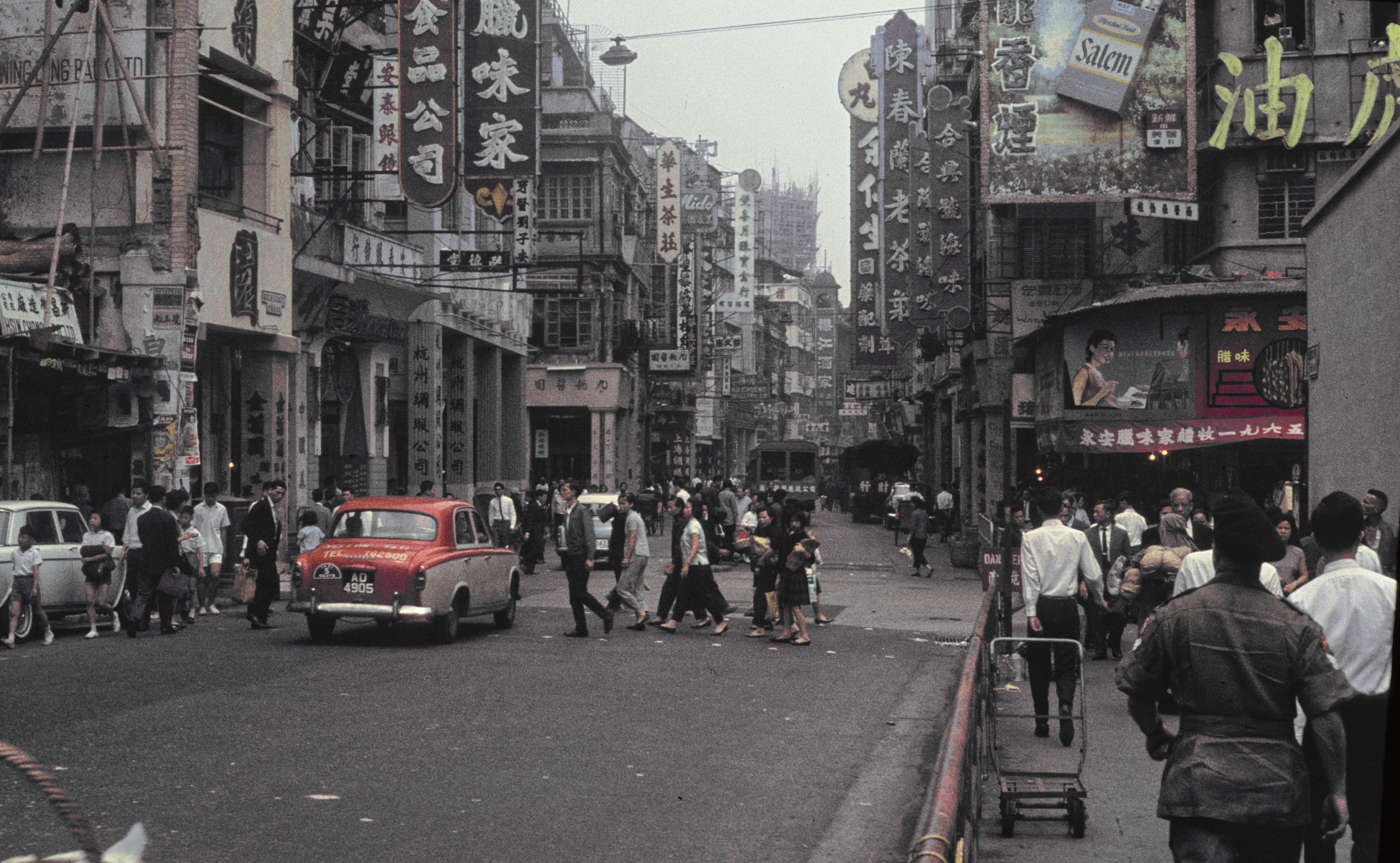 Hong Kong. Intersection of Queen's Road Central and Jubilee Street (right)